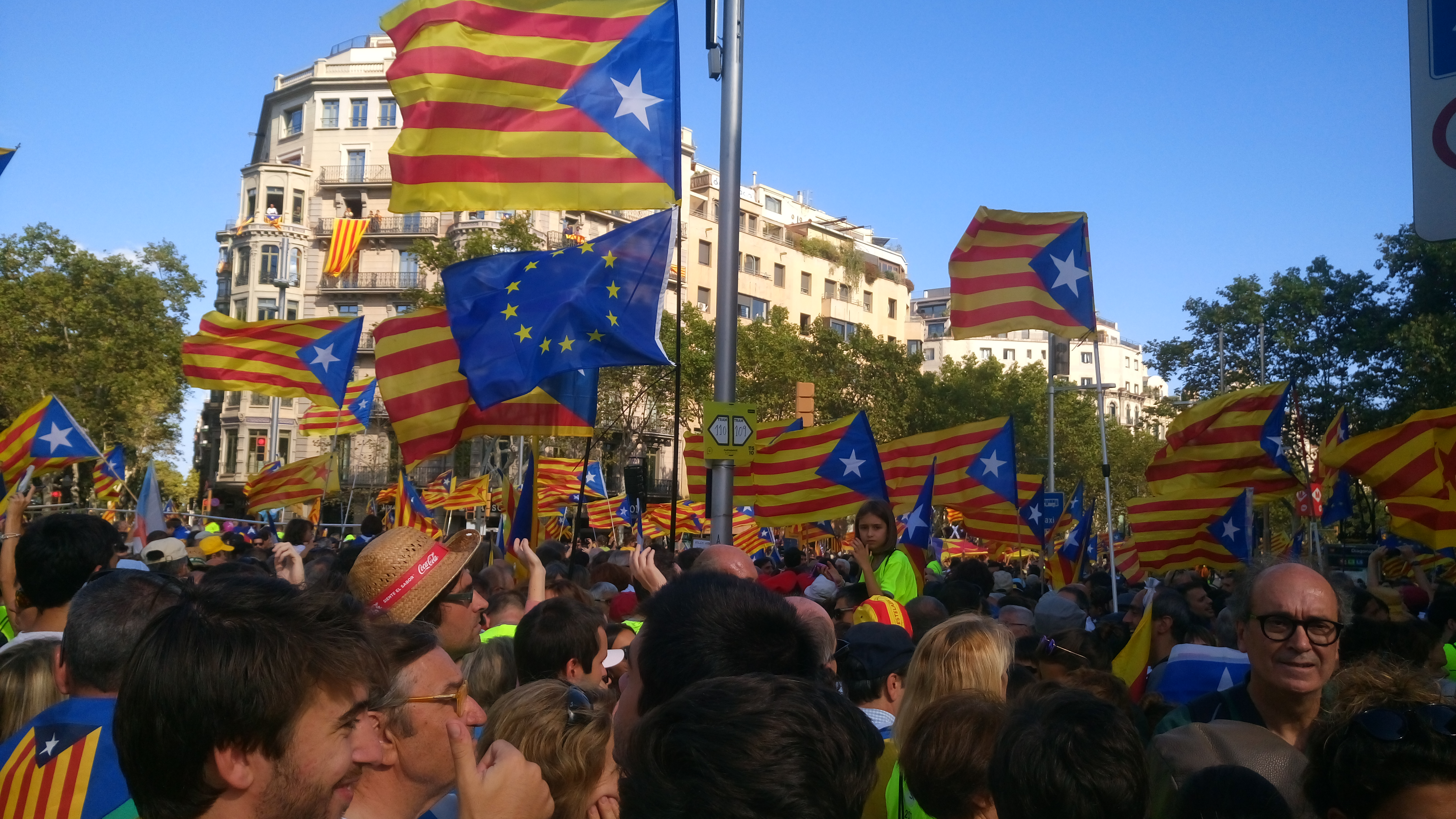 Barcelona. 9/11/2017 Catalonia National Day demonstration. Passeig de Gràcia.